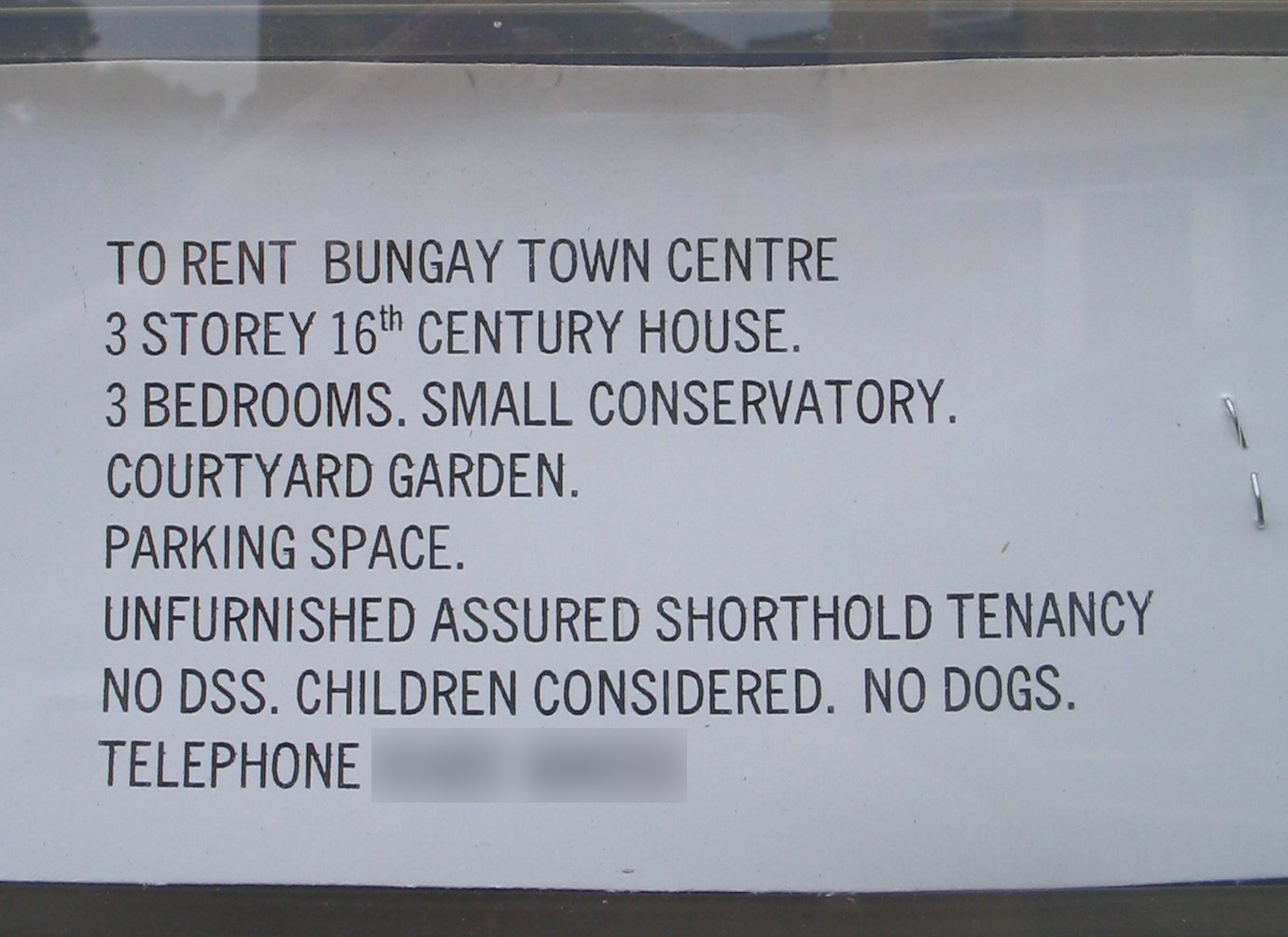 Photograph taken by me, 23rd July, 2006 in Bungay, Norfolk.